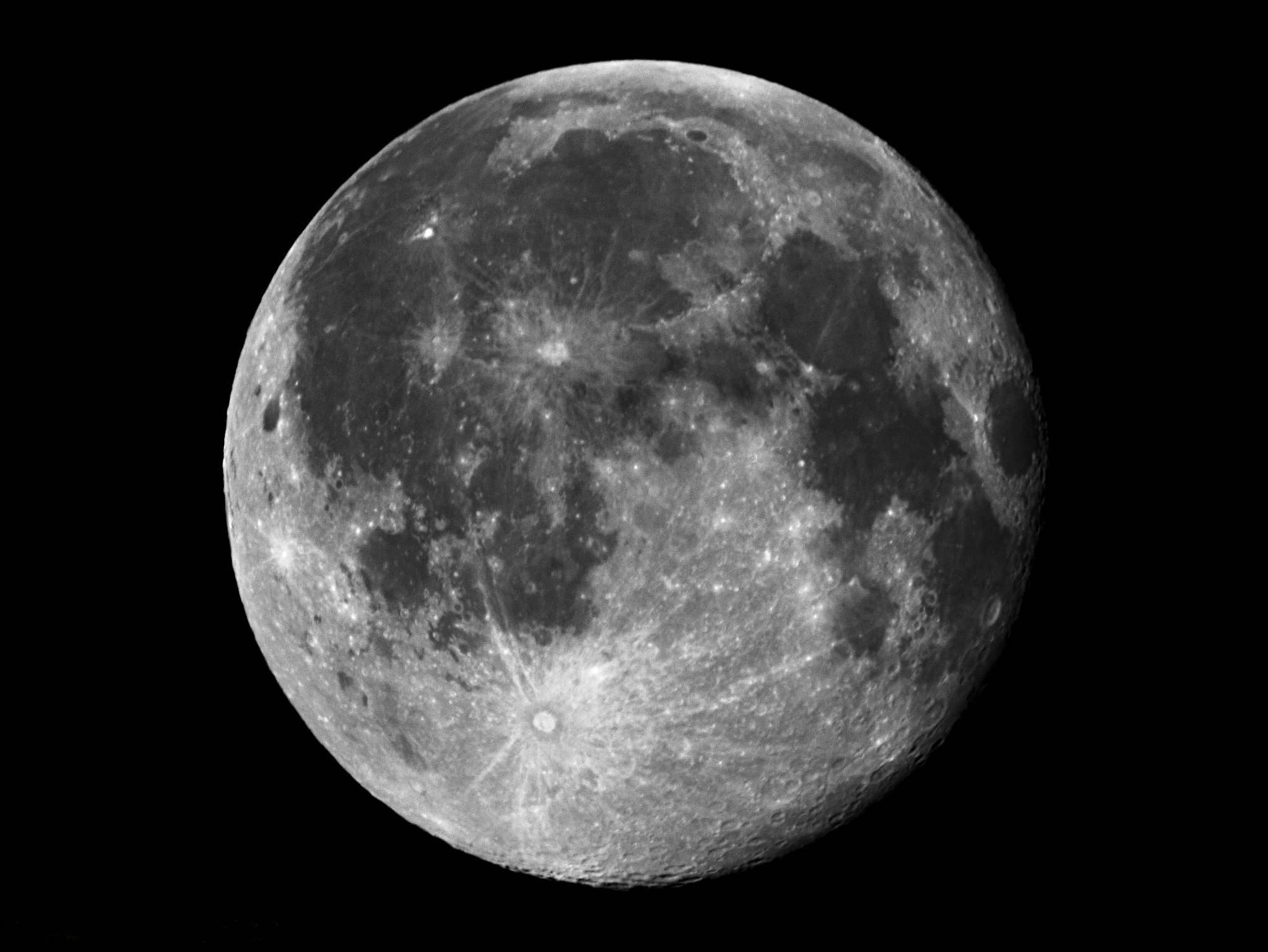 A full moon image.